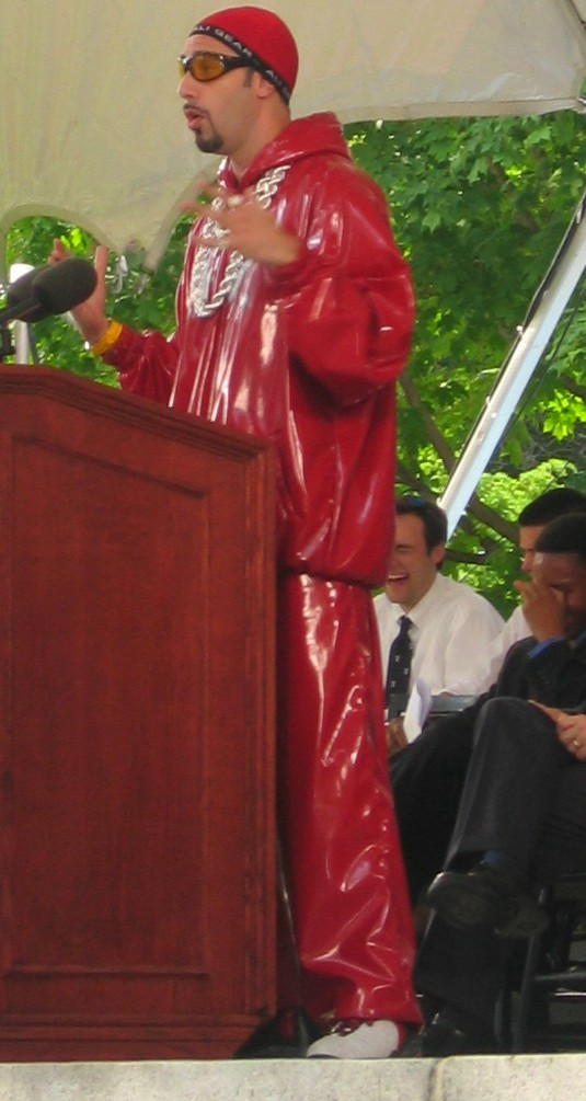 Ali G, delivering the Class Day speech to the Harvard class of 2004, in front of Memorial Church in Harvard Yard. June 9, 2004.